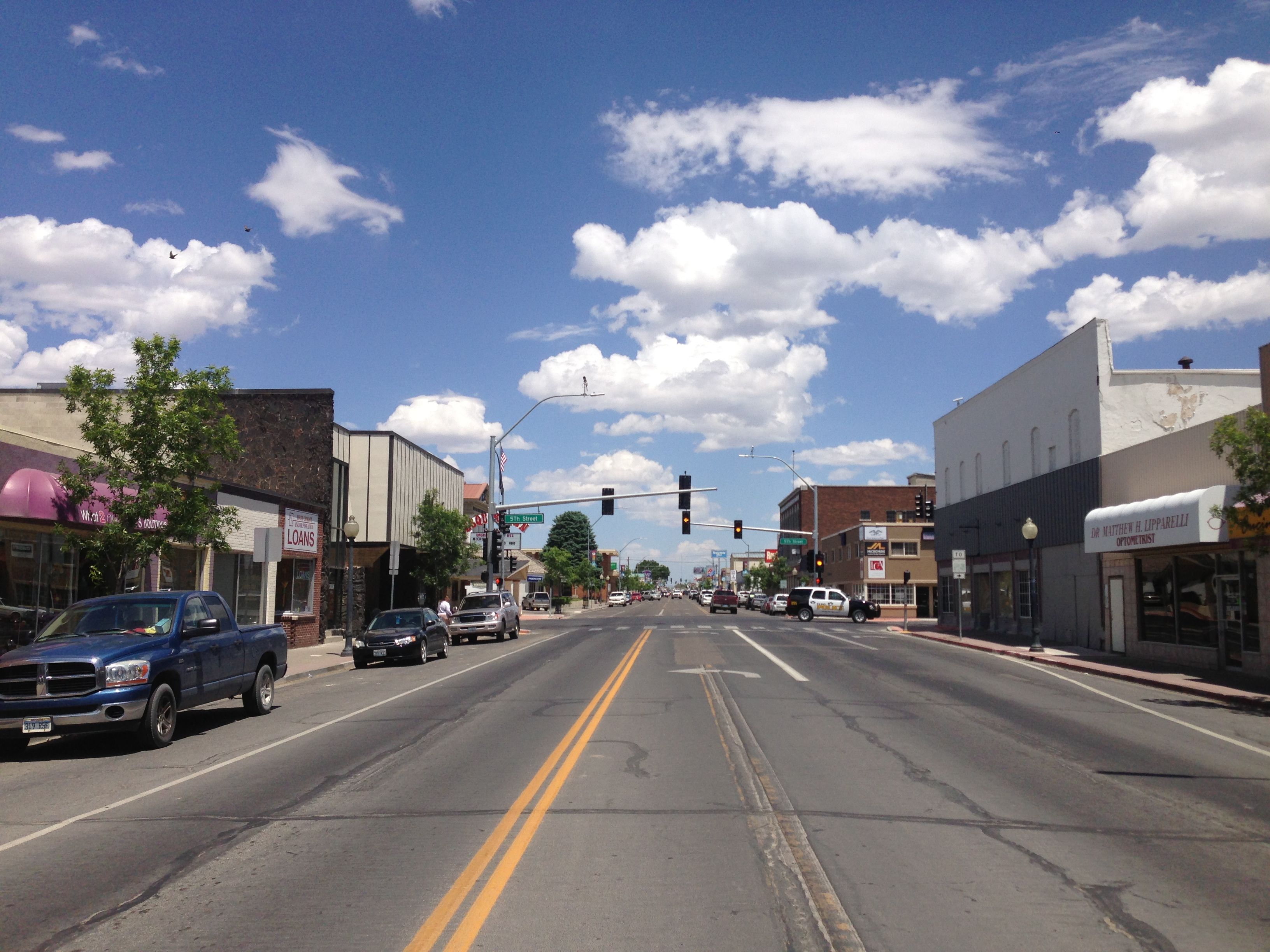 View northeast along Idaho Street southwest of 5th Street in Elko, Nevada